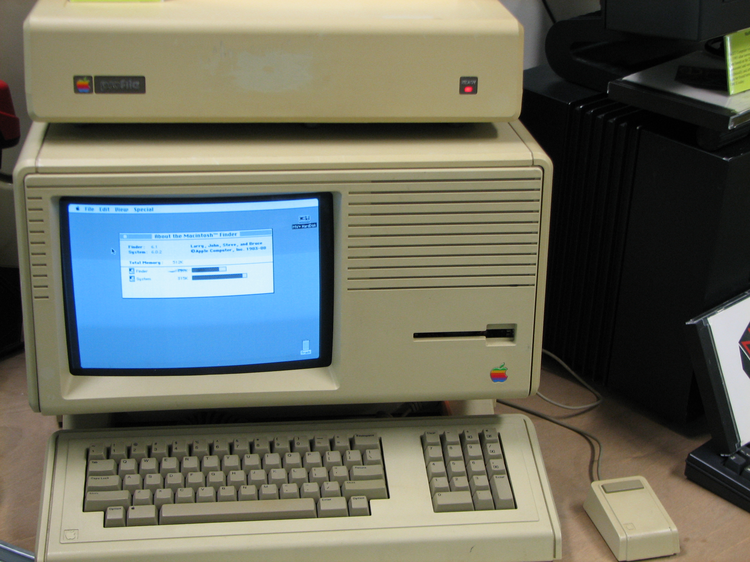 An Apple Lisa. Looks like it's running Mac OS, so the hardware might be hacked. Vintage Computer Festival (VCF) East 6.0 , at the InfoAge Science Center